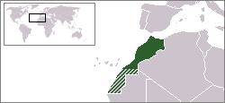 Modified from Image:LocationMorocco_striped.png showing Western Sahara striped